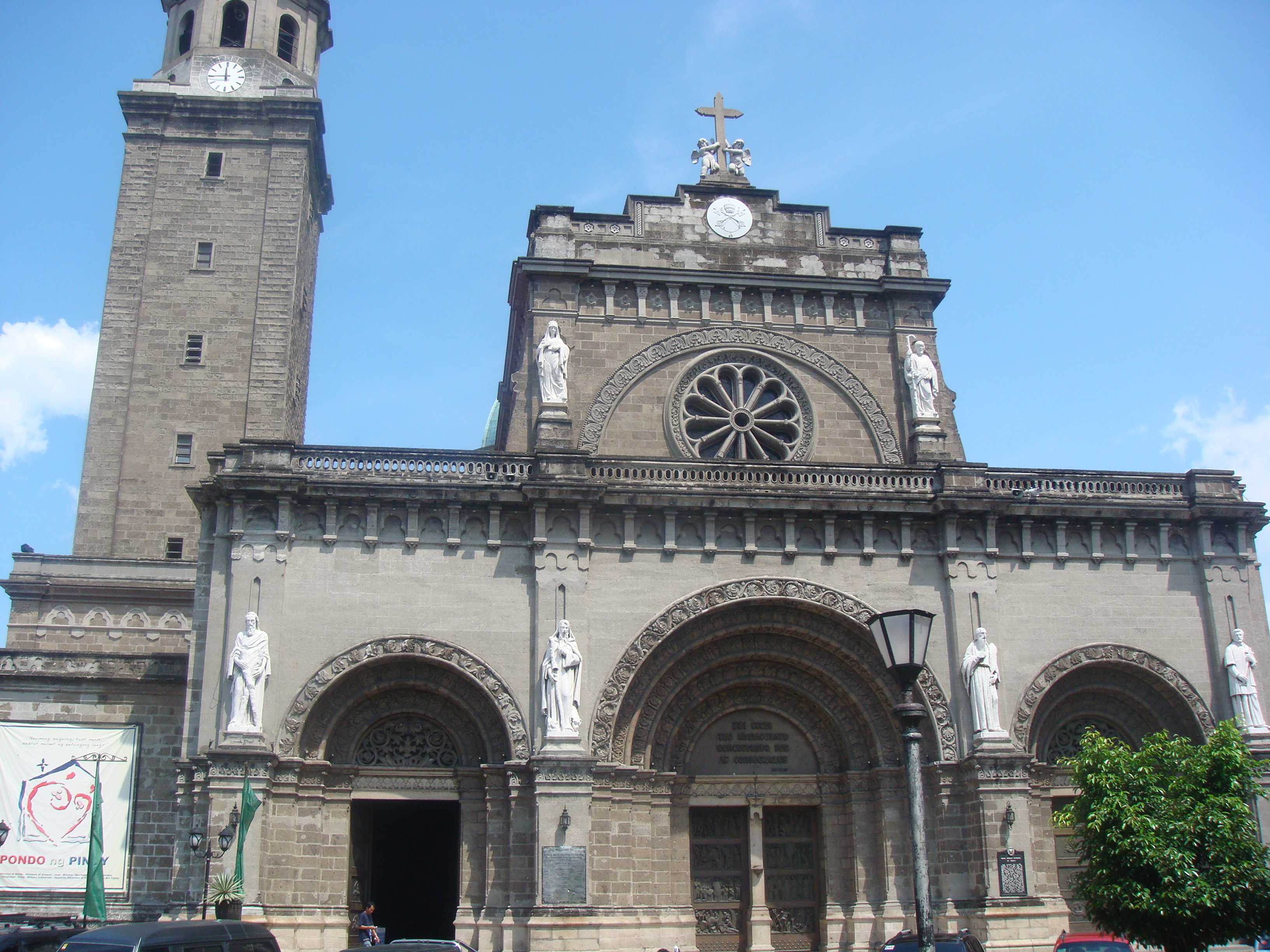 Exterior of the Manila Cathedral.